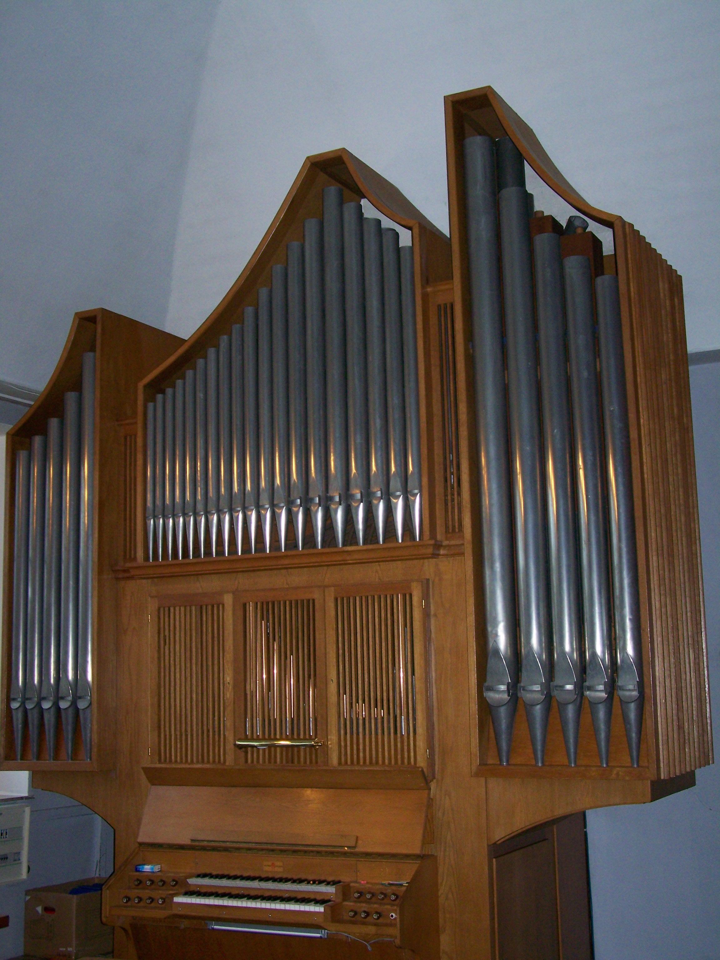 Organ in Baltrum, Neue Inselkirche